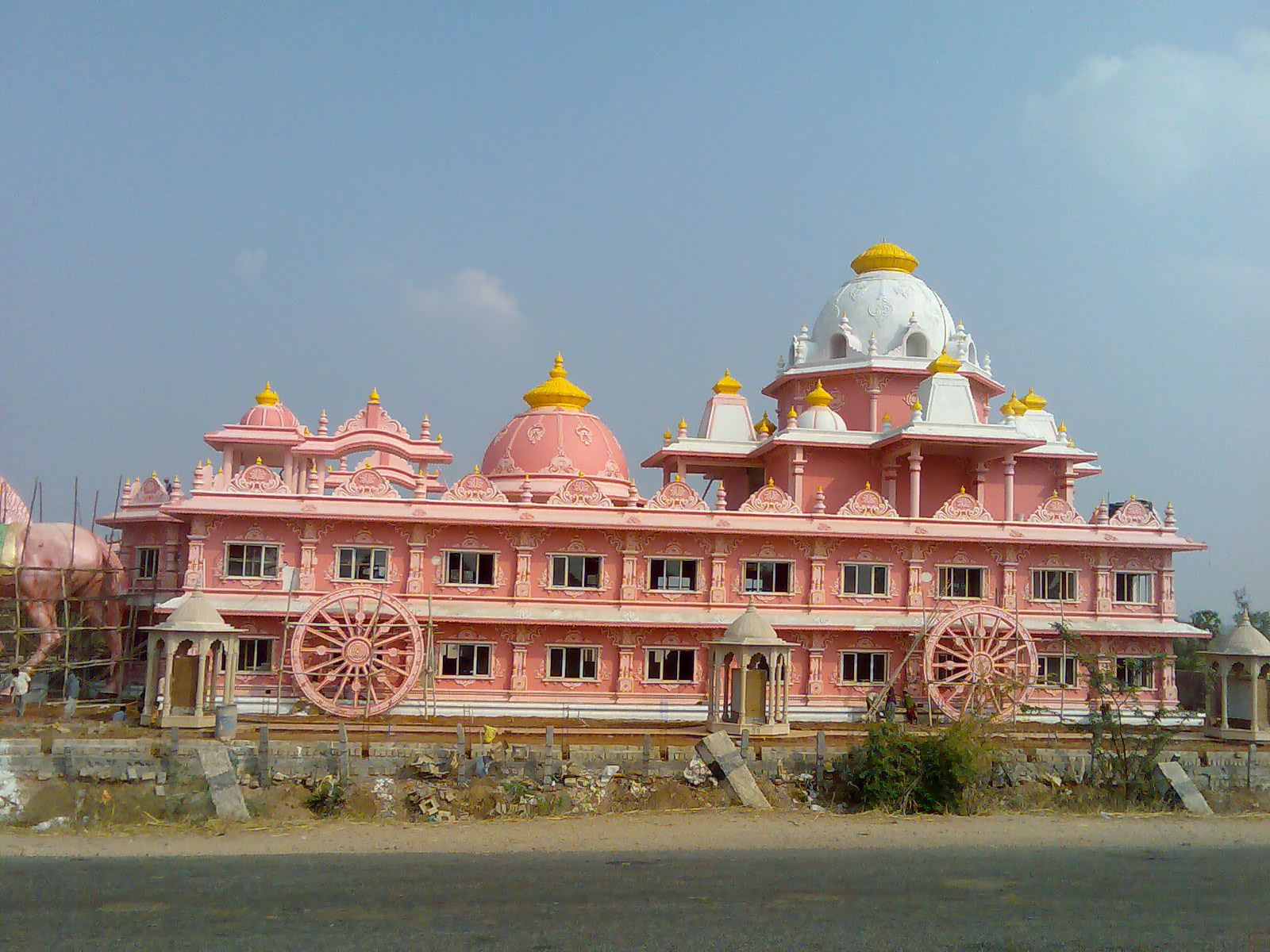 This the picture of the ISCKON Temple located at Ananthapur on NH-7 near Hanuman Junction.